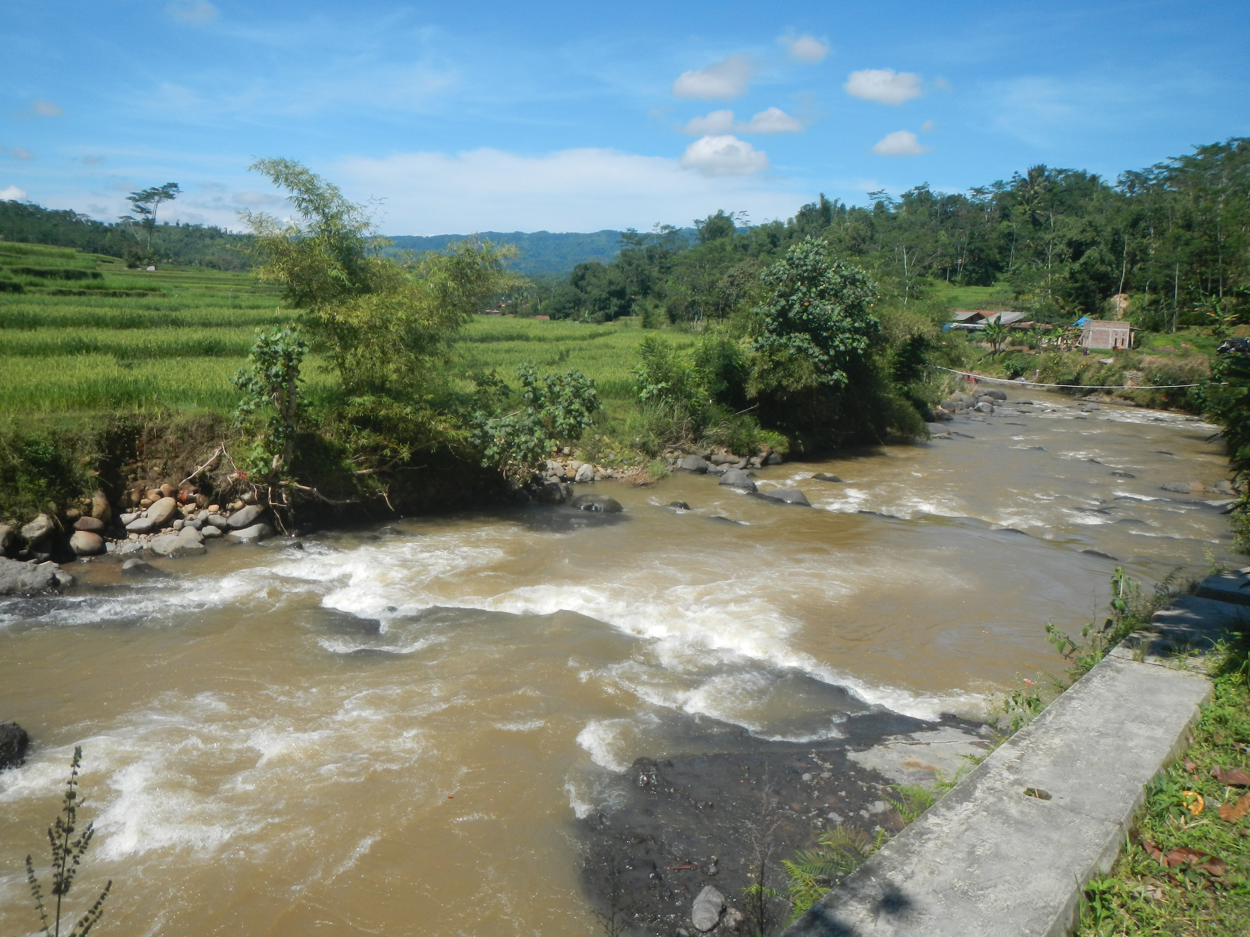 Cikangean River in Padahurip village Banjarwangi district Garut residence West Java Indonesia